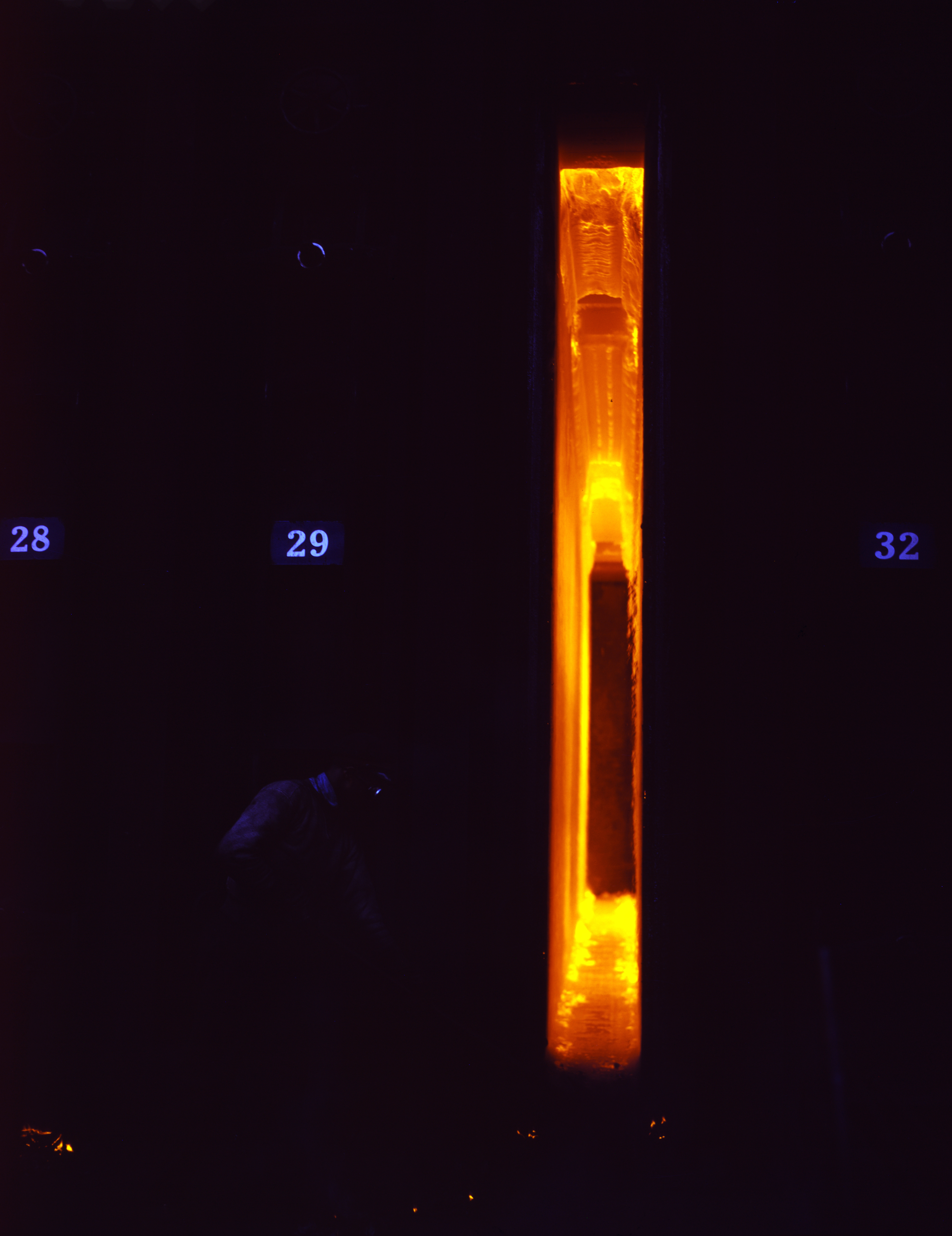 Hanna furnaces of the Great Lakes Steel Corporation, Detroit, Mich. Cleaning out loose coke after removing a door preparatory to putting door back. You have to look closely, but there's a man shoveling to the left of the furnace.